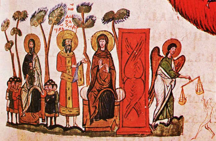 Ivan Alexander, Jesus Christ and Virgin Mary - Miniature from Tetraevangelia of Ivan Alexander, detail.